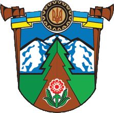 Herb of my sity